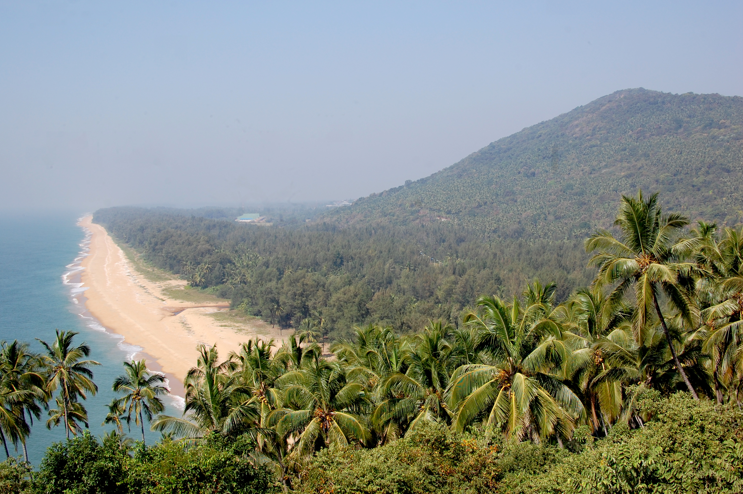 Ezhimala beach. Ezhimala hill is also visible. The photo is taken from the lighthouse in Ezhimala Naval Academy